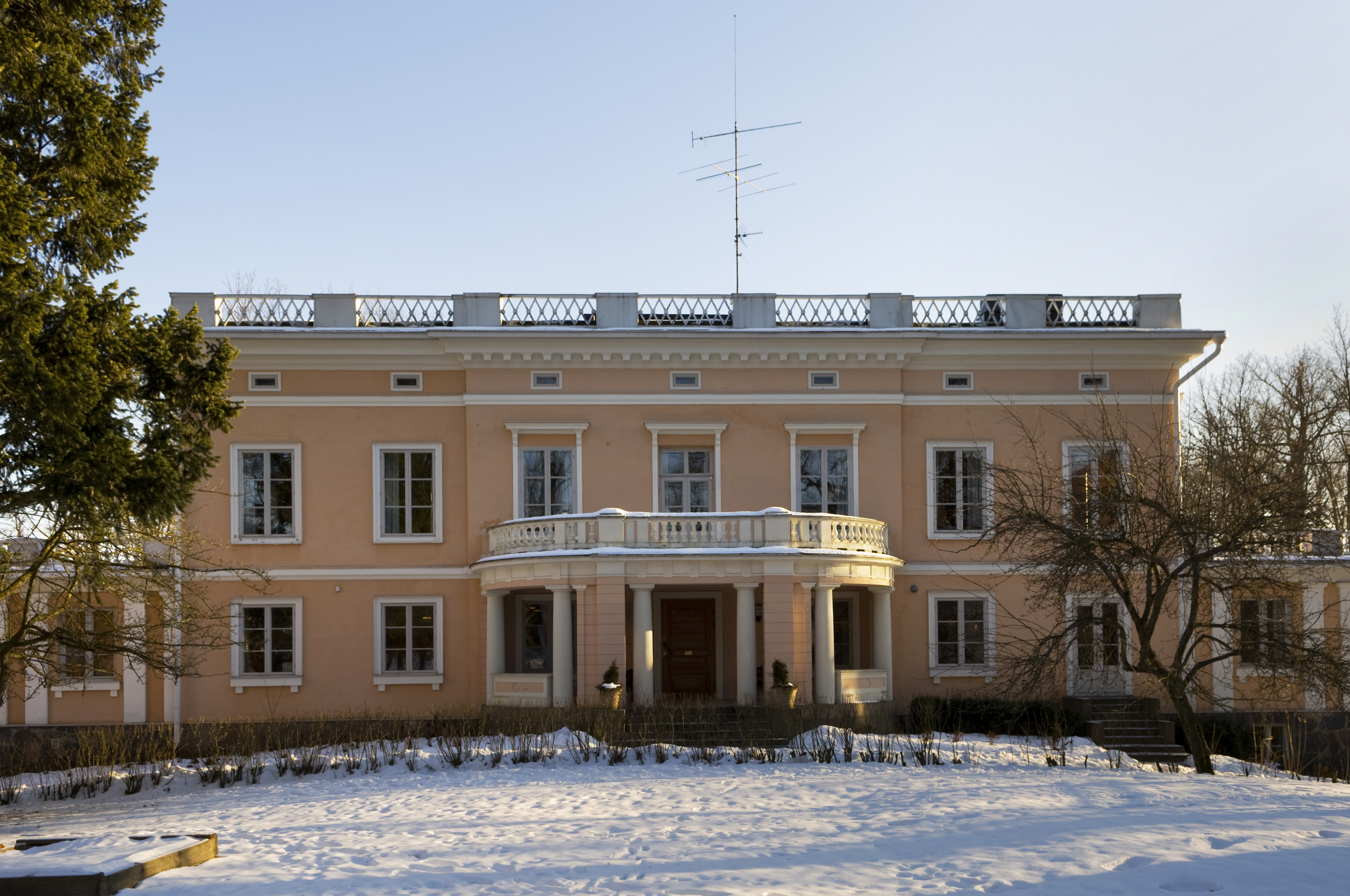 The Munkkiniemi manor in Helsinki, Finland. The main building is from 1815 and was expanded in 1839. Kone Corporation owns the building.